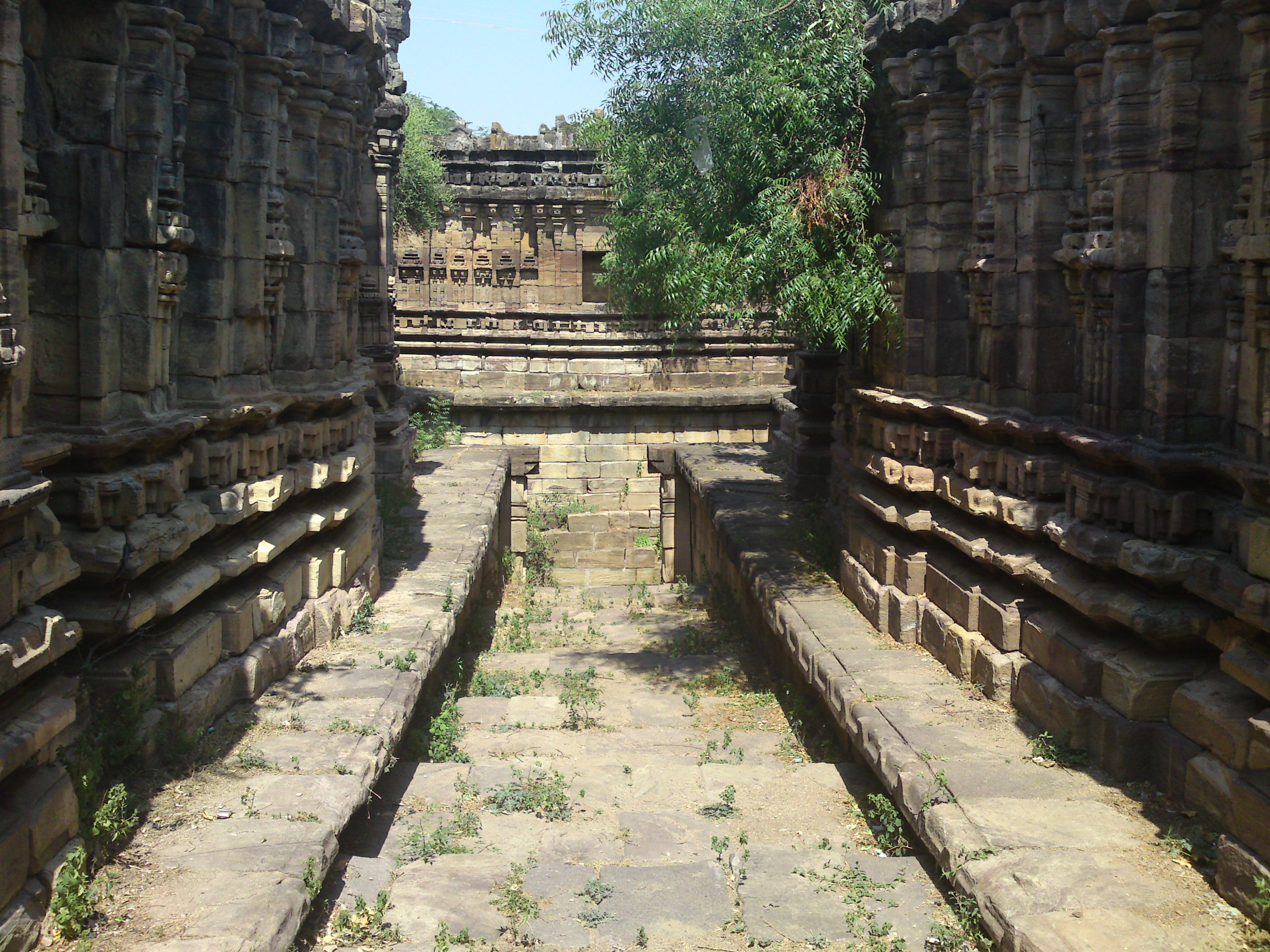 Nagakunda at Sudi. Hubli, Karnataka(North), India